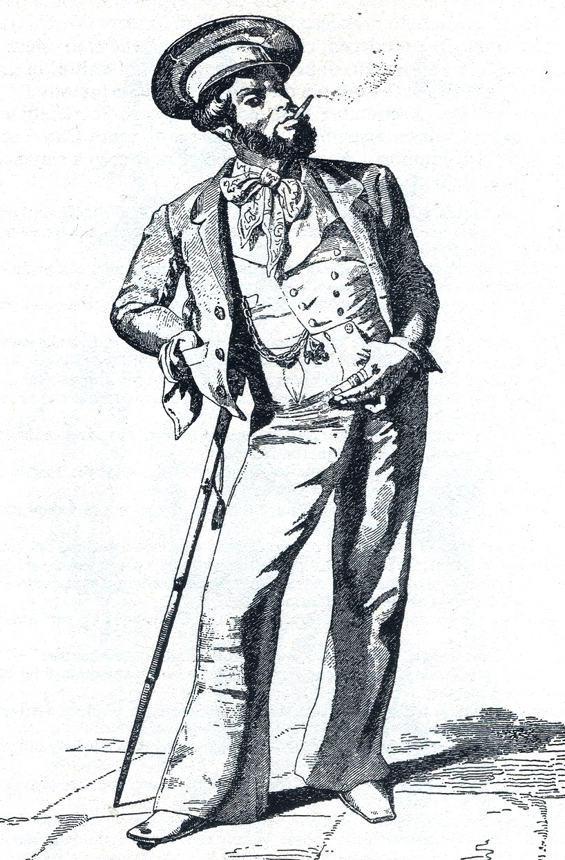 Guappo camorrista in Napoli, Italy. Drawing of Filippo Palizzi, 1866.